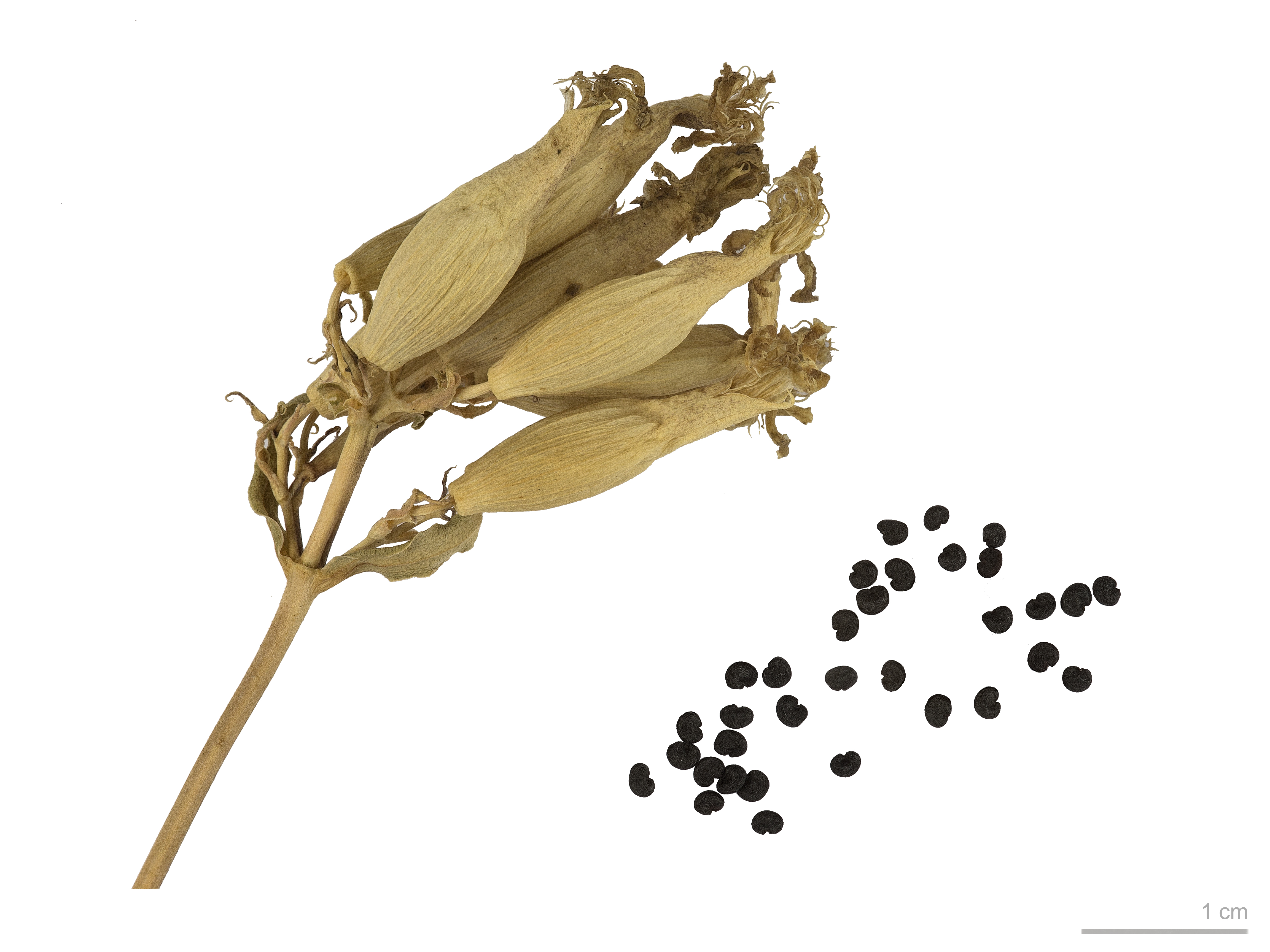 common soapwort , fruits and seeds